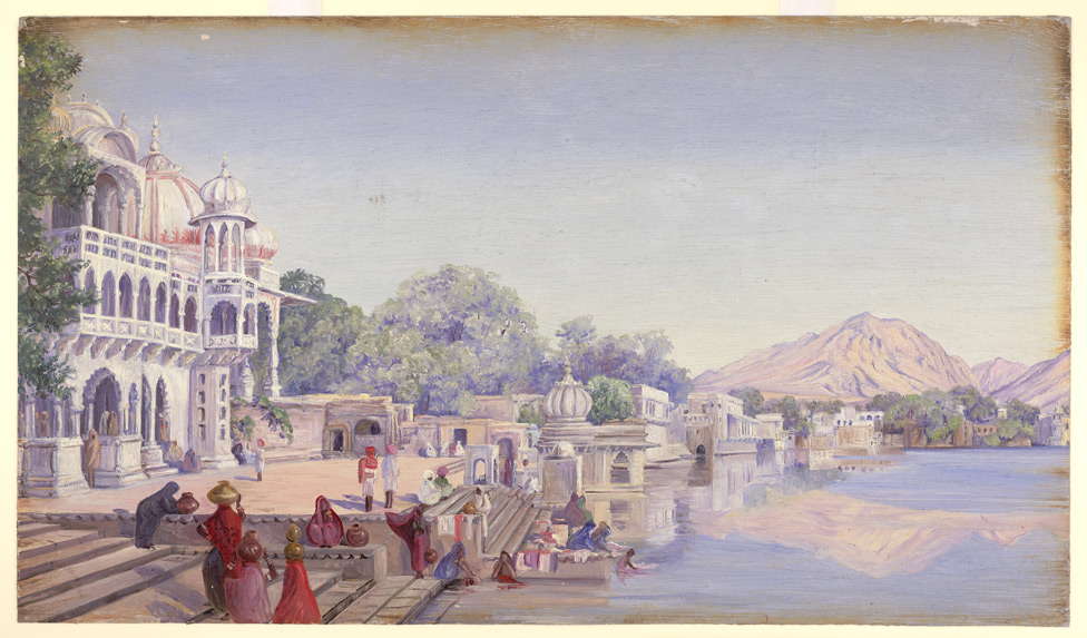 Poshkur, India. Decr. 1878'